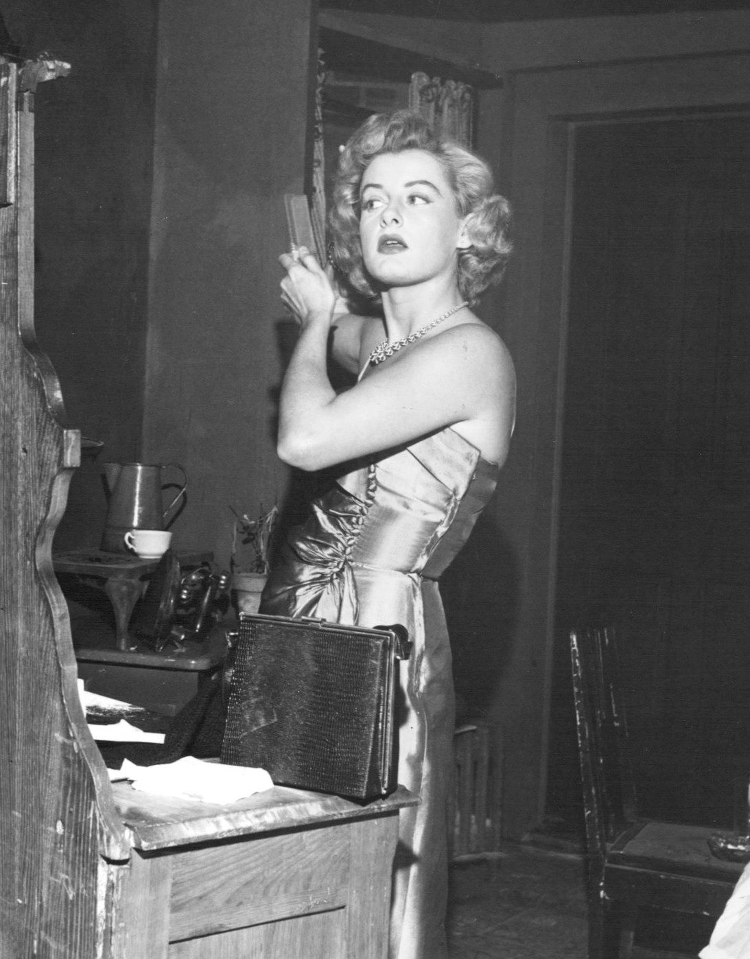 Photo of Constance Ford as Anna Christie from the play of the same name. The play was presented on the anthology-type series, Pond's Theatre.